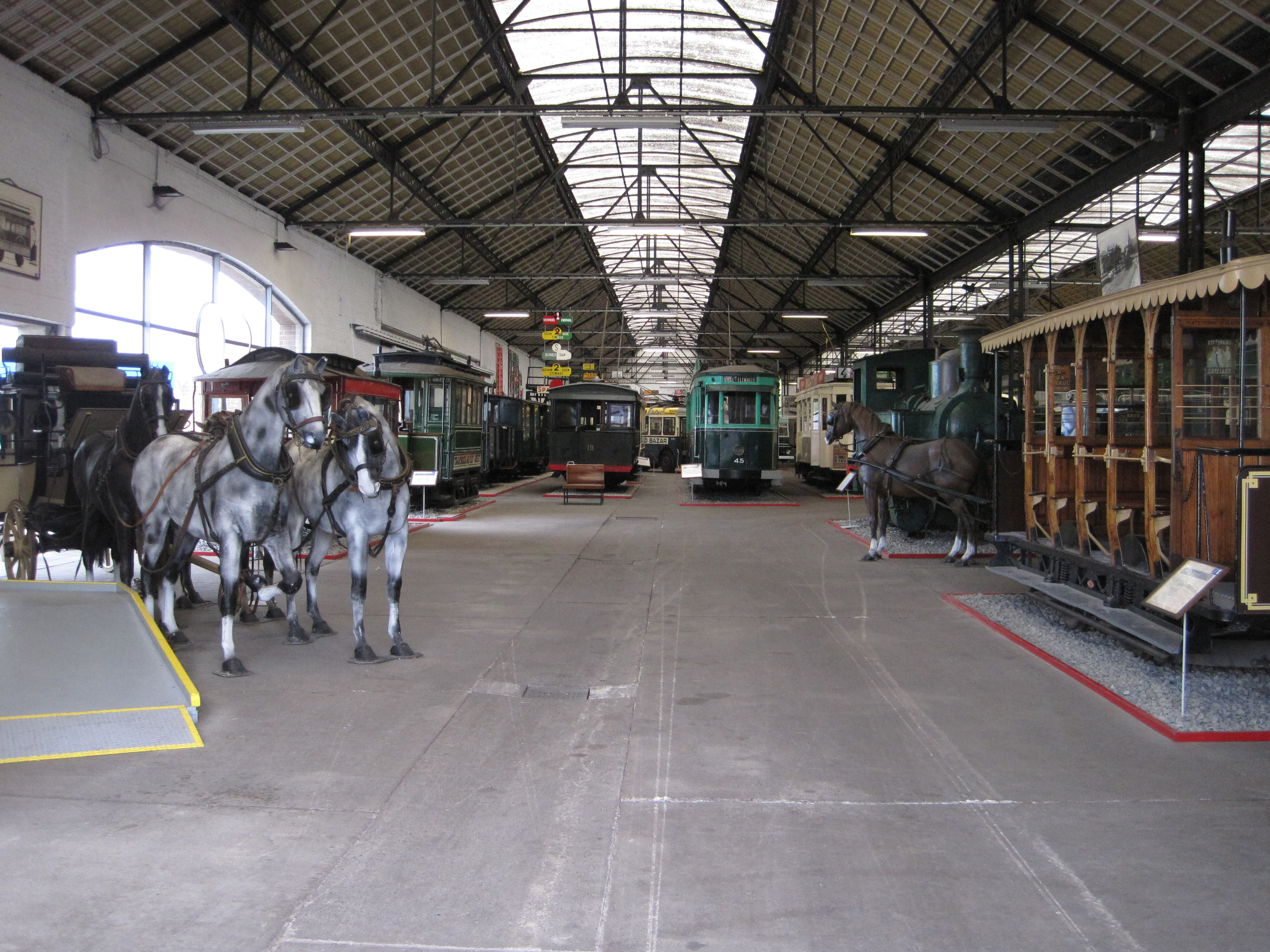 Museum of Transport, Liège, BE